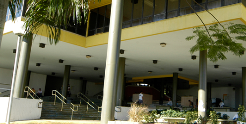 UPRA.